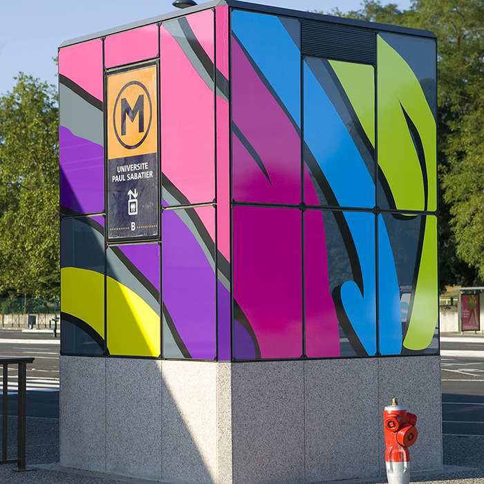 Lift shat of undergound's station "Université Paul Sabatier" in Toulouse, adorned by Chat Maigre. France, 2008.